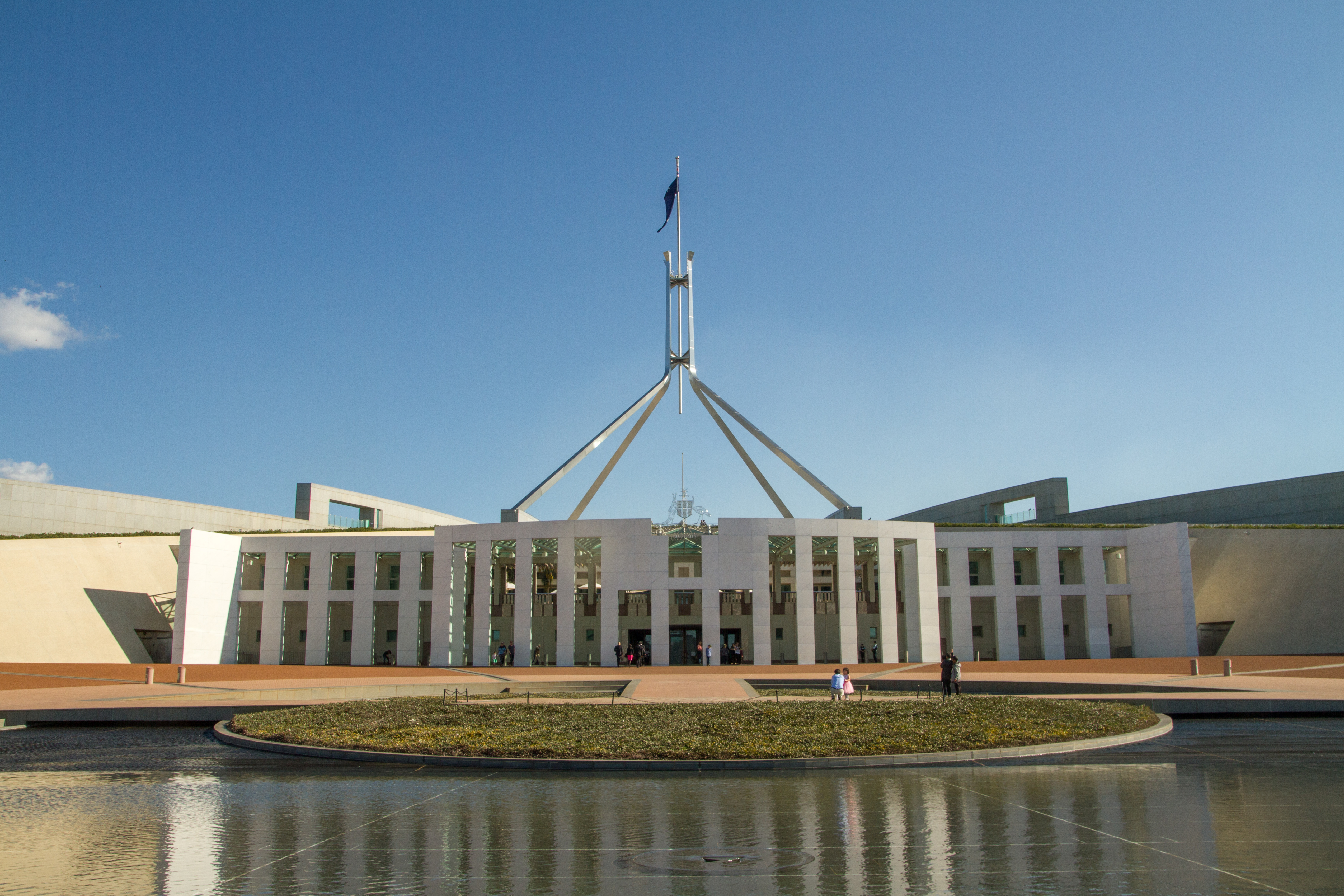 Parliament of Australia, Capital Hill, Canberra, ACT